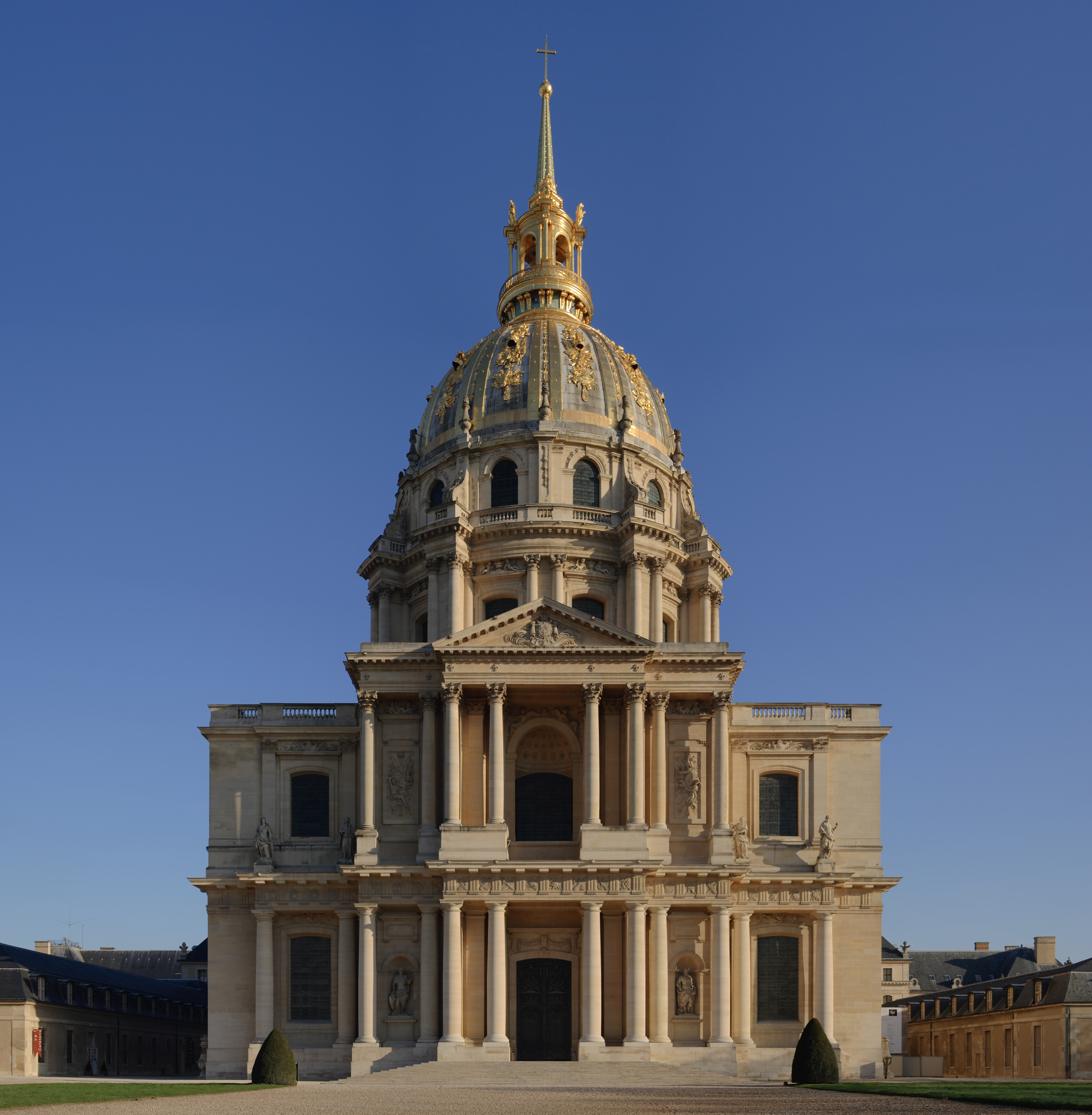 Les Invalides, from the south. This picture is actually a mosaic of 3x4 photos stitched together with Hugin.